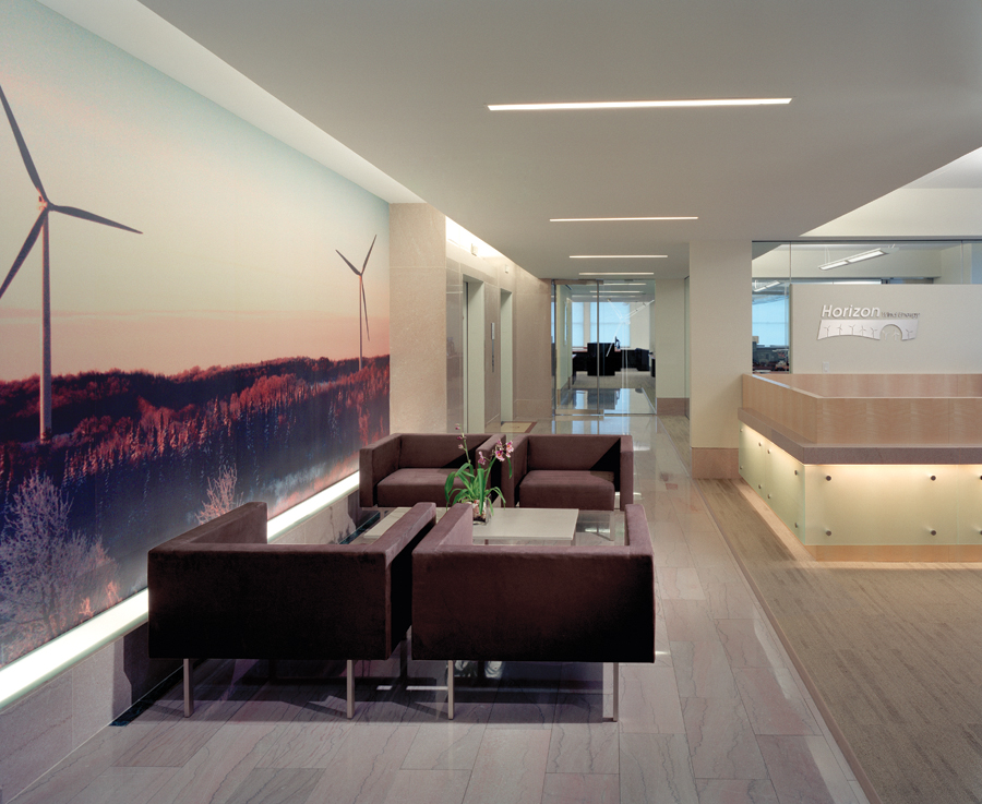 Horizon Wind Energy Houston